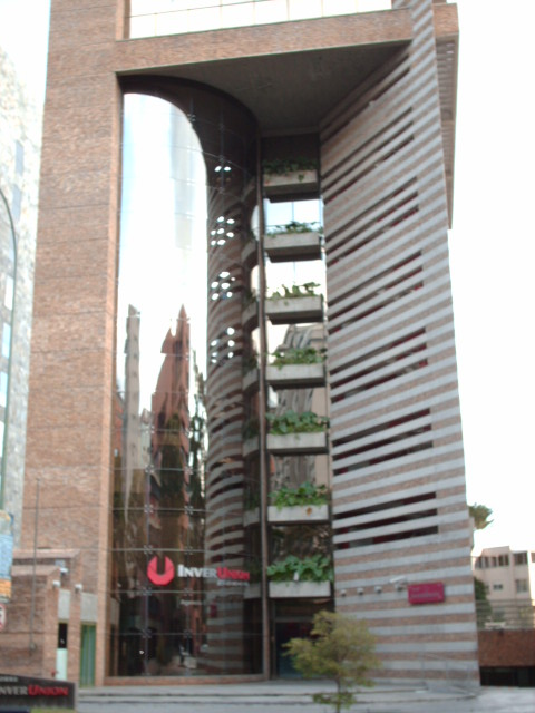 Inverunion building, Caracas-Venezuela